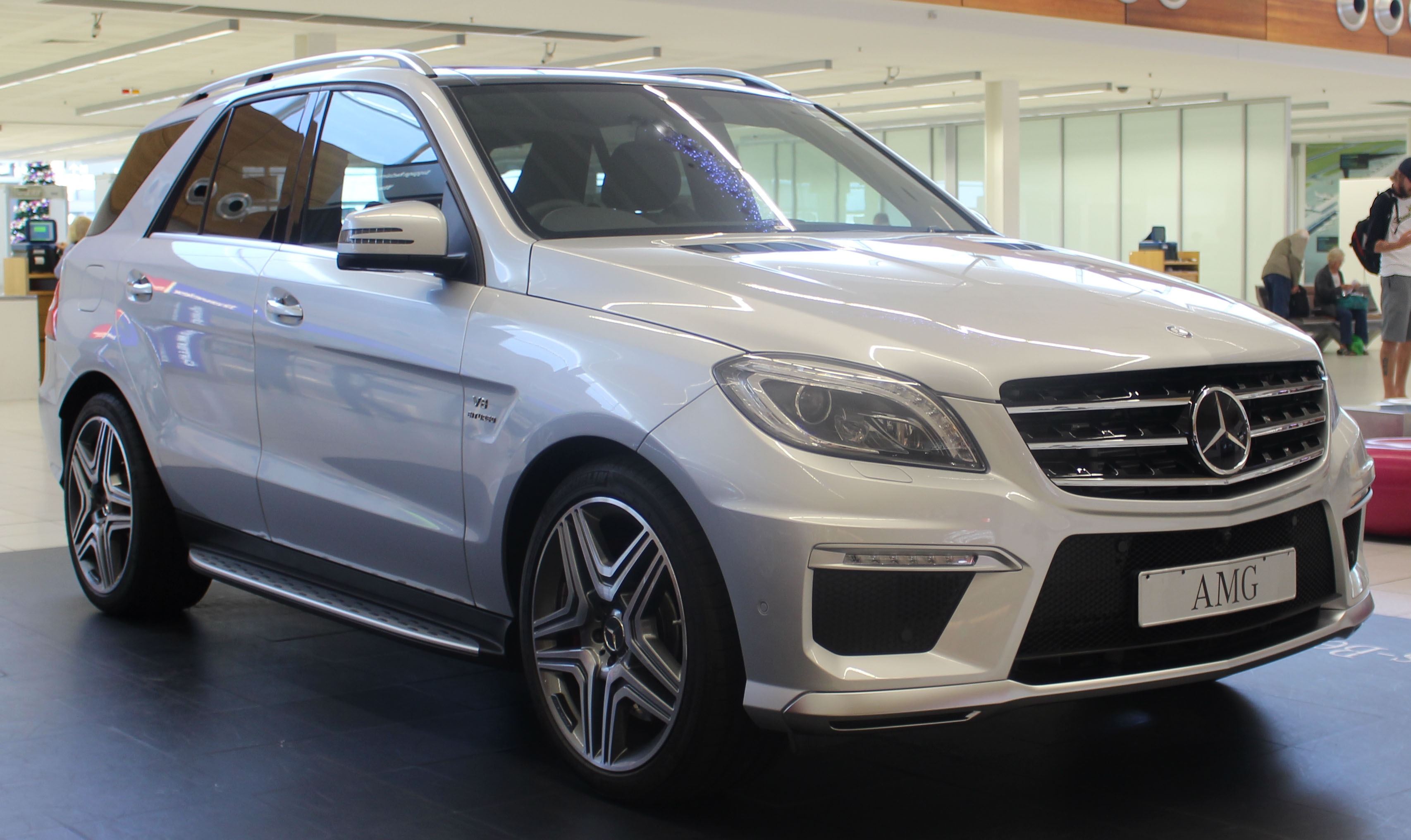 2014 Mercedes-Benz ML 63 AMG (W 166 MY15) wagon. Photographed at Adelaide Airport, Adelaide, South Australia, Australia.